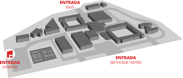 Campus do ISEL